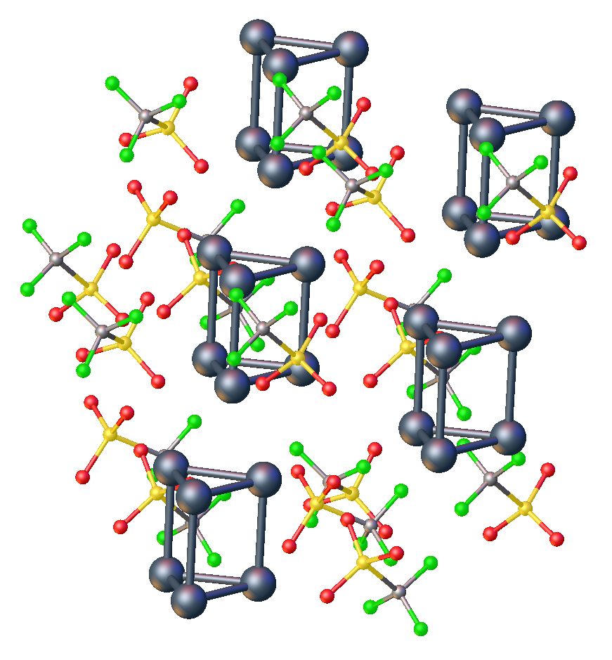 Portion of lattice of [Te6](O3SCF3)2